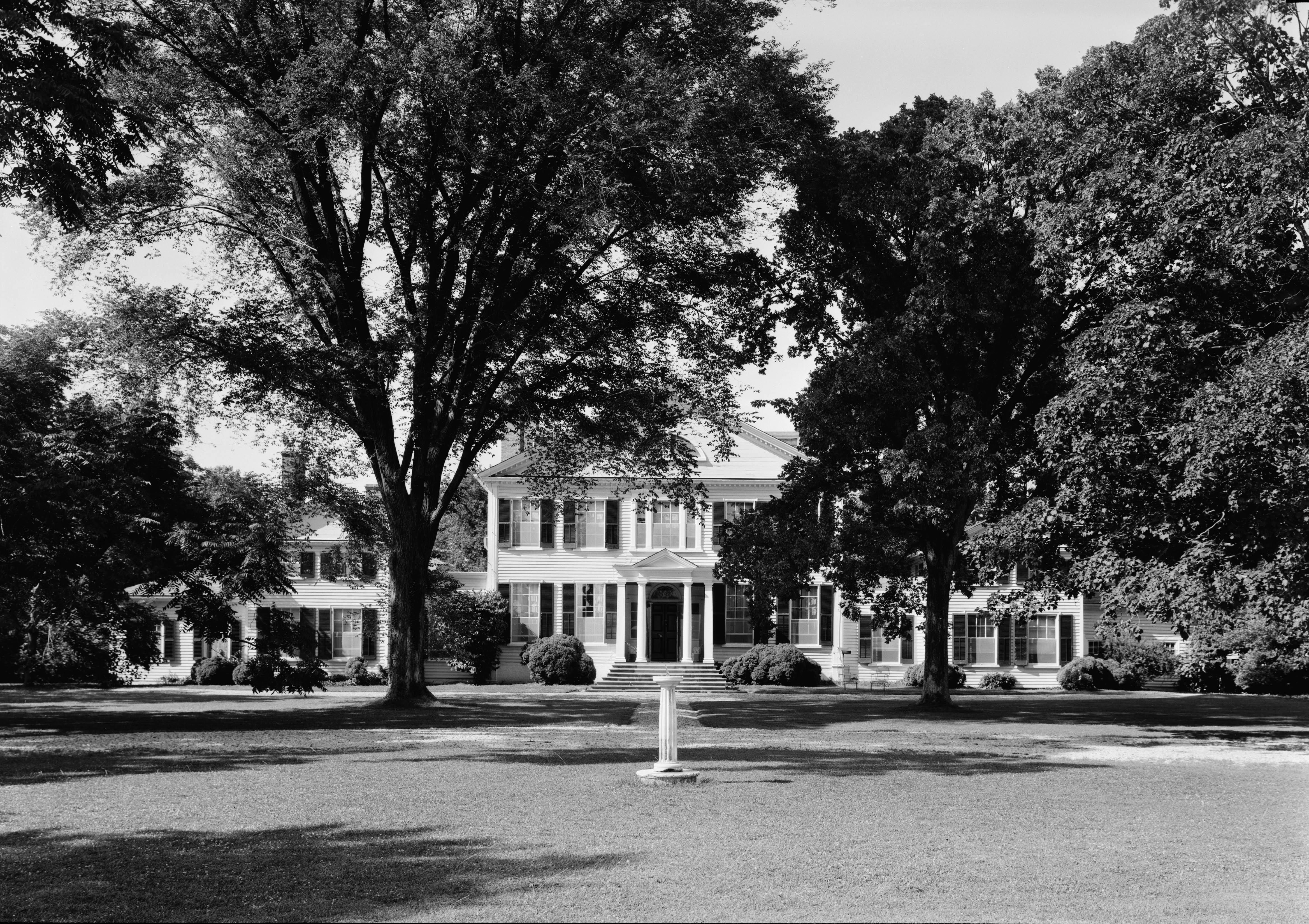 Wye House, American plantation